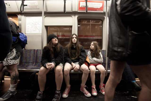 Boston's fifth annual No Pants Subway Ride, organized by The Societies of Spontaneity.